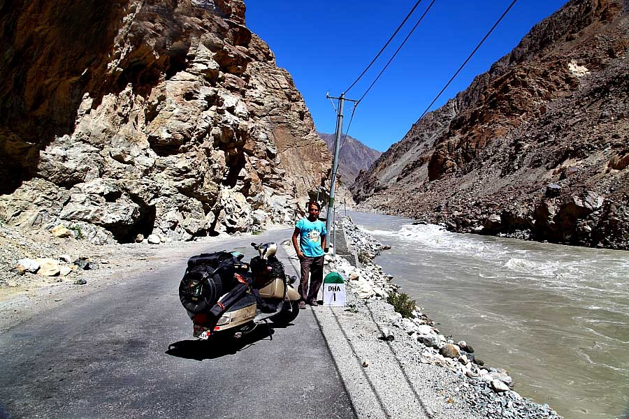 Road and Indus river in Batalik